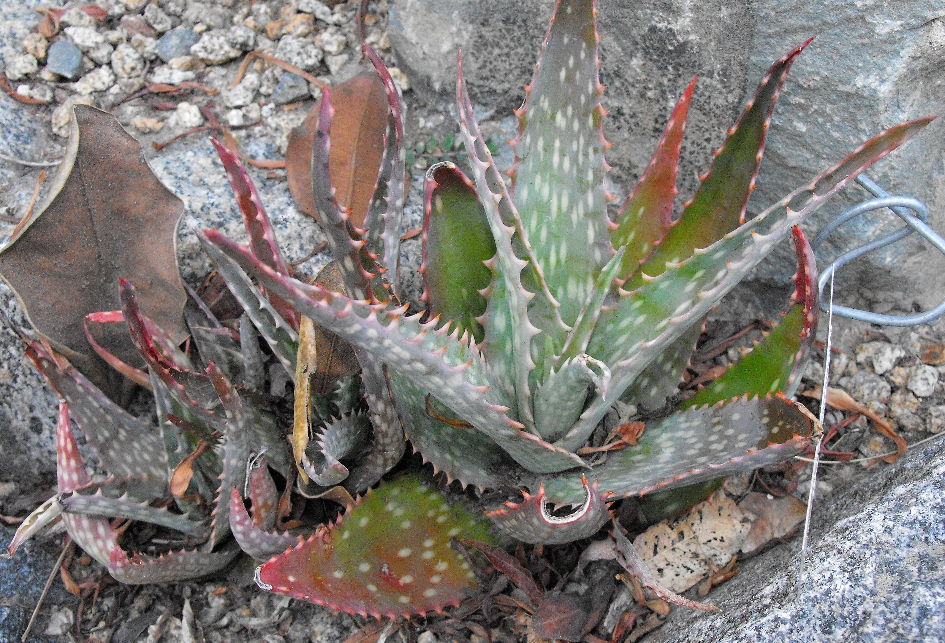 Aloe mubendiensis at the San Diego Zoo, California, USA. Identified by sign.